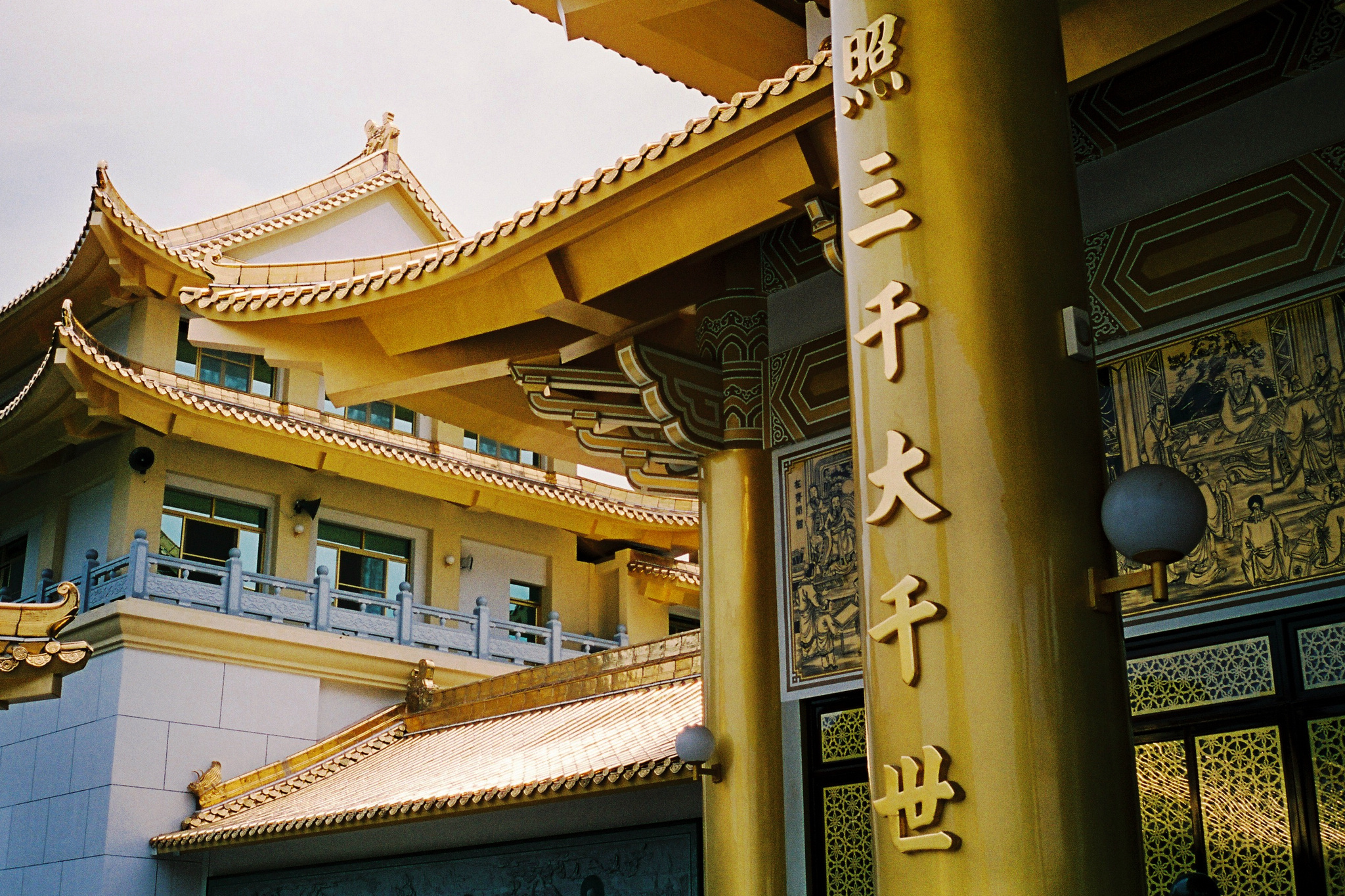 A Buddhist temple from the Tiantai school, in Kaohsiung, Taiwan. 對這種金光閃閃的宗教建築實在沒有太多的好感 我還是喜歡傳統、被燻得有些灰灰的紅漆 ...